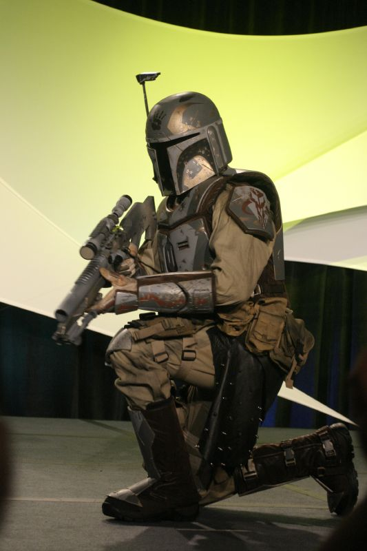 Star Wars Celebration IV Costume Pageant:Mandalorian. Photo by Scott Ruether.